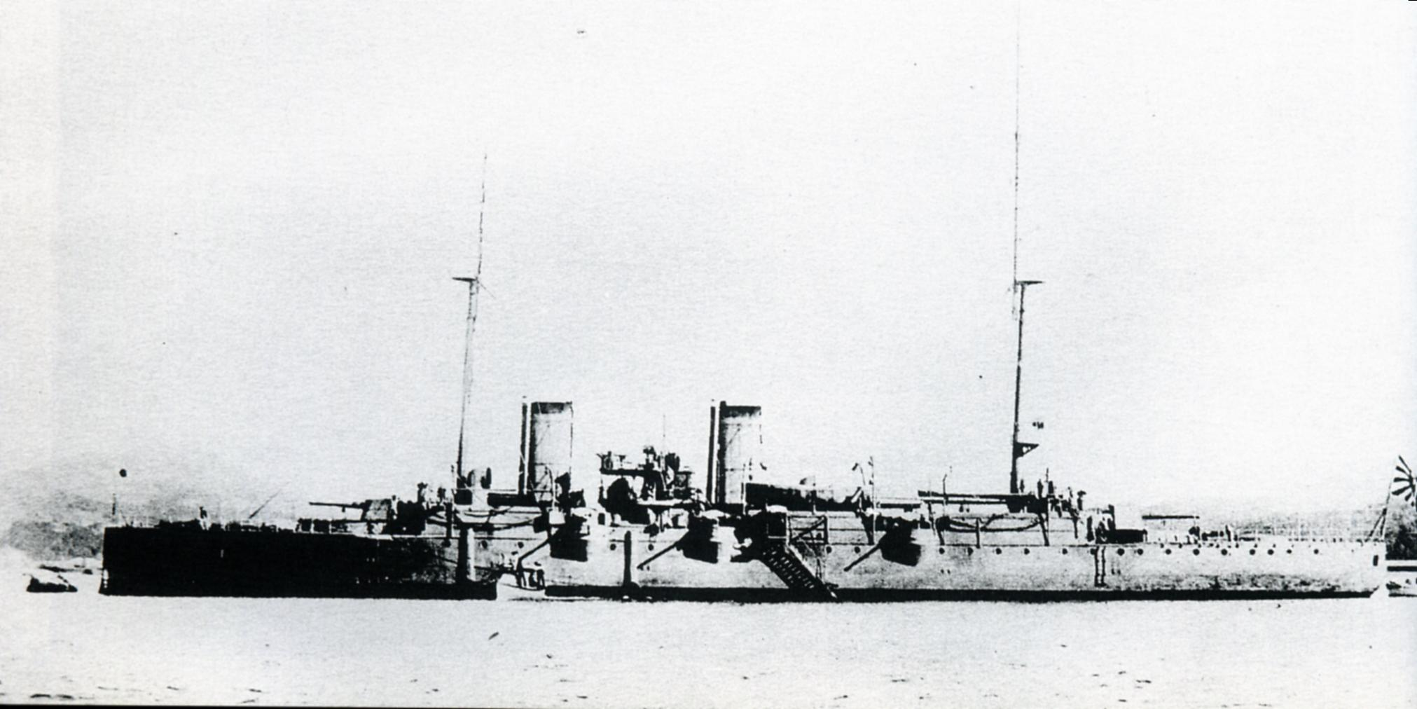 Japanese cruiser Izumi at Sasebo in 1908